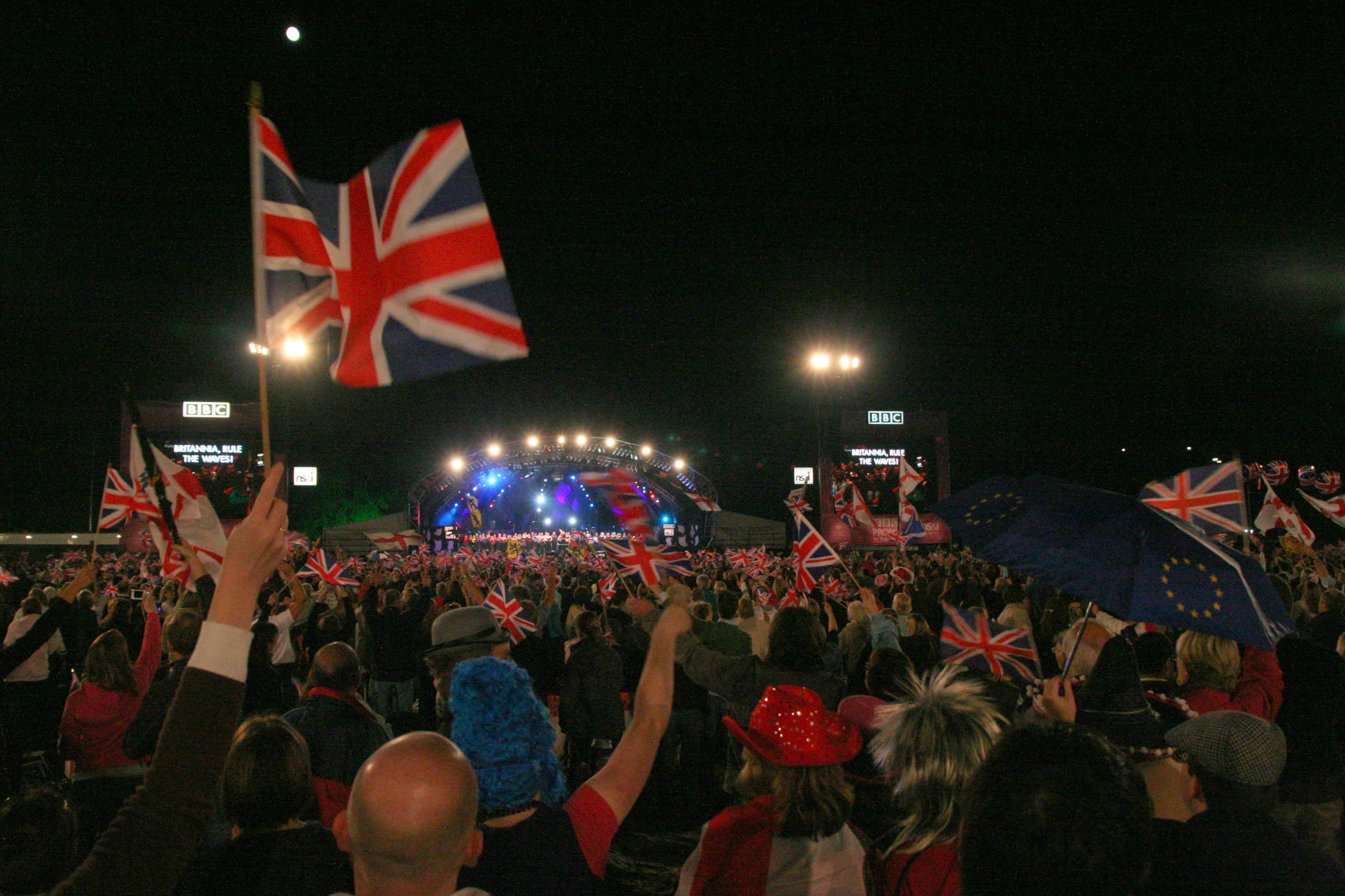 Proms in the Park